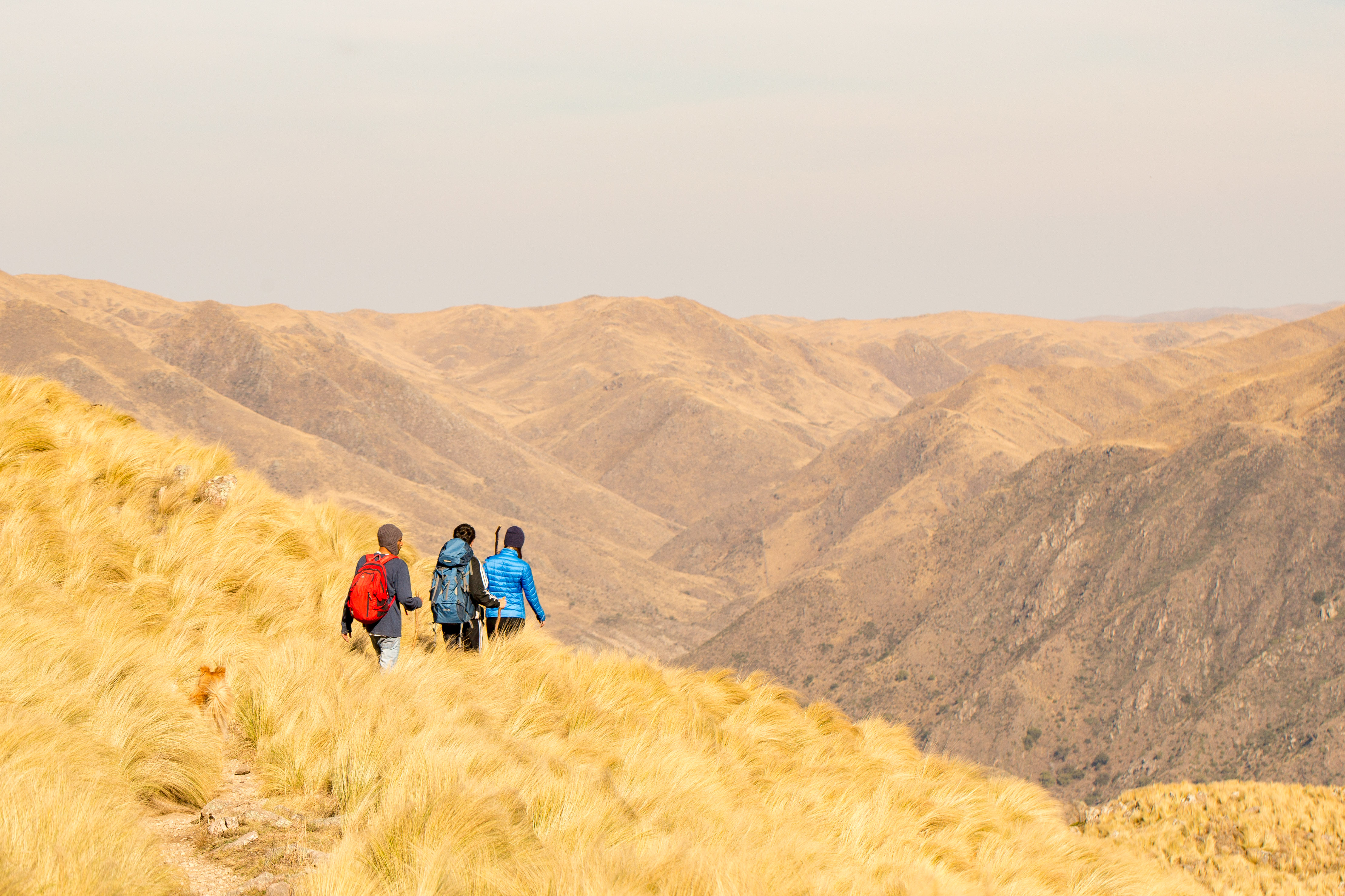 Walking down grassy fields in spirit walley down from Uritorco mountain top in Capilla del Monte, Argentina.